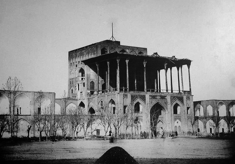 Ali-Qapu builging in Naqsh-e Jahan Square.